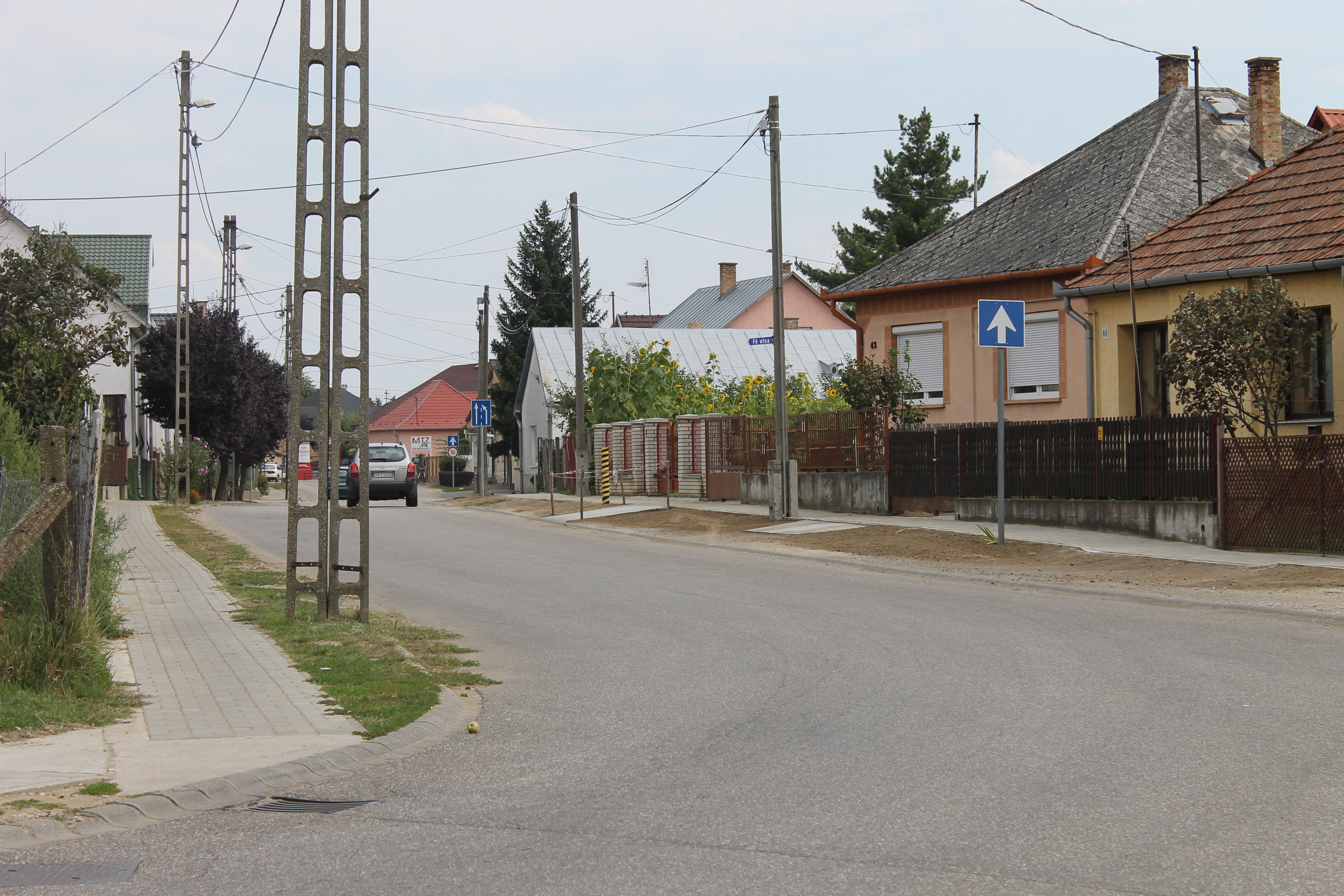 The Main Street (Fő utca) in Balkány